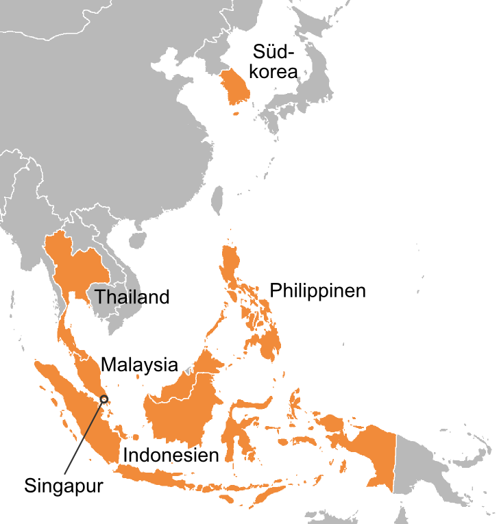 Countries that were most affected by the 1997 Asian Financial Crisis. (German version)